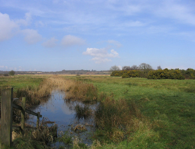 Minsmere Levels. Looking north from the footpath to Eastbridge